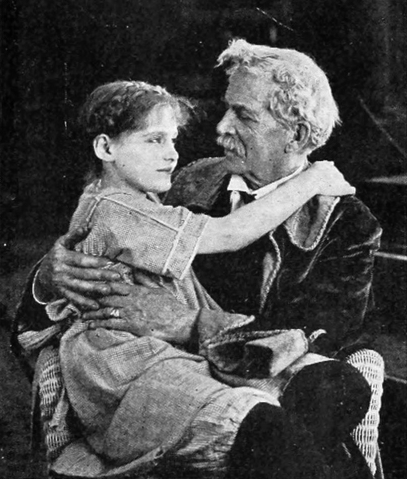 Still from the American comedy film Home Wanted (1919) with child actress Madge Evans and William T. Carleton (1859 – 1930), on page 1949 of the June 28, 1919 Moving Picture World.